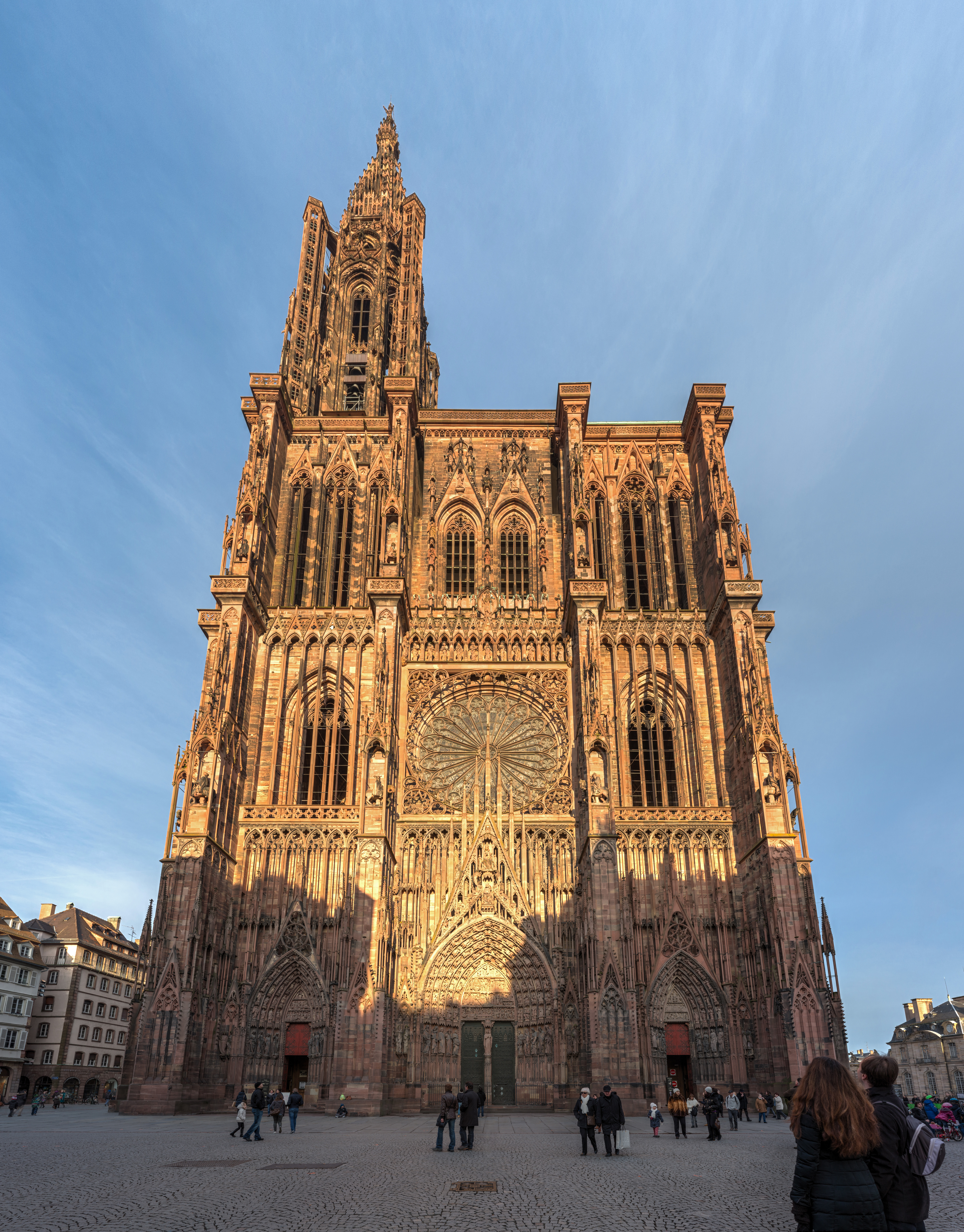 Strasbourg Cathedral in Alsace, France, as viewed from the west from Rue Mercière.